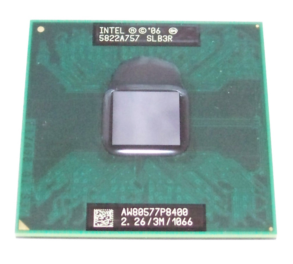 Processor Intel Mobile P8400 2.26GHz/3MB/1066 AW80577SH0513M Penryn-3M SLB3R